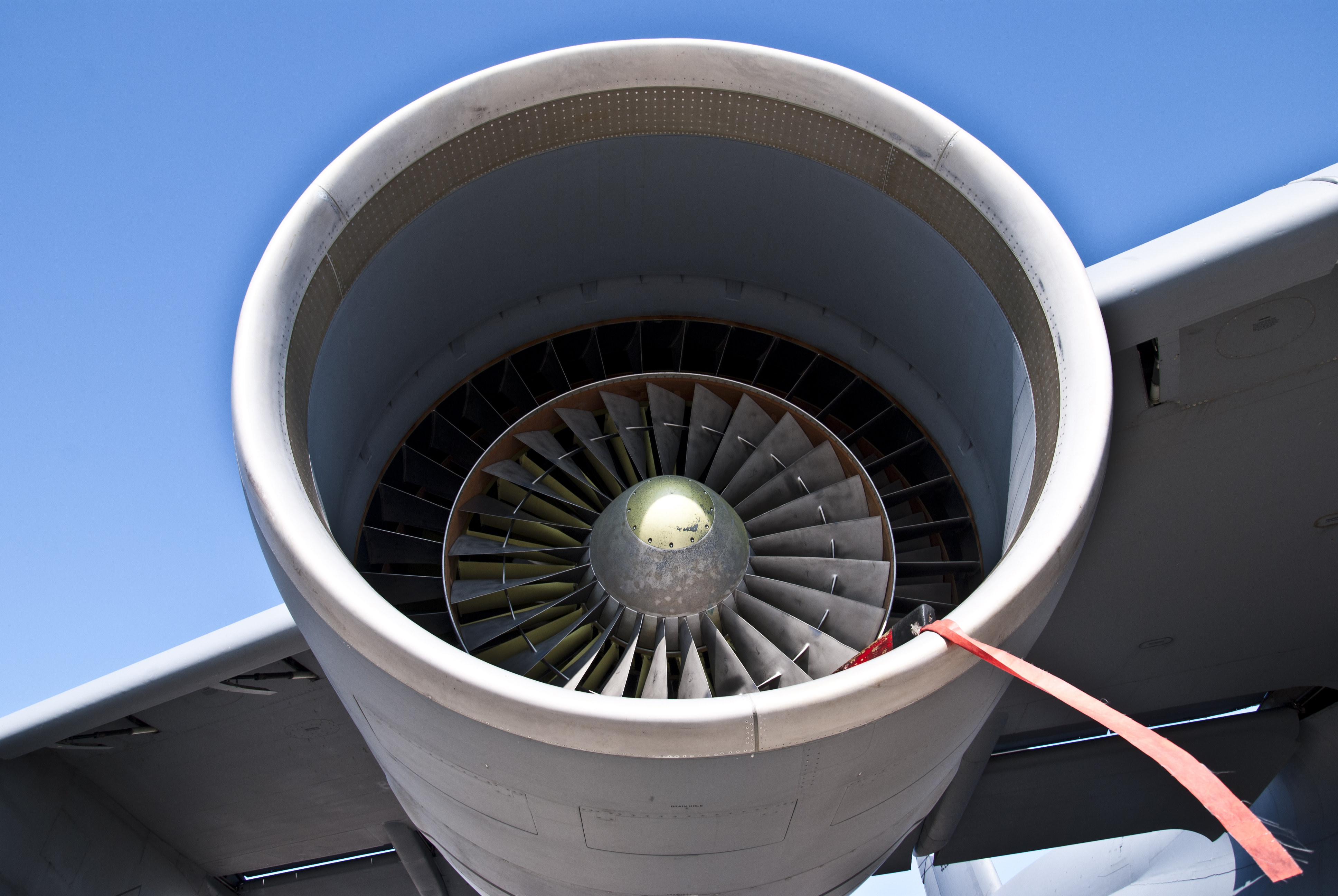 USAF Lockheed C-5 Galaxy engine